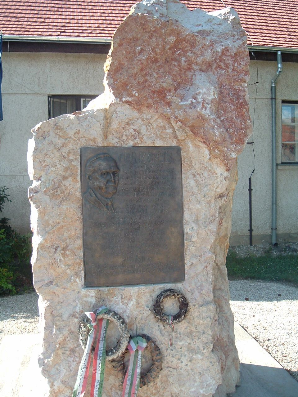 The Prinz Gyula monument in Püspökmolnári, Hungary